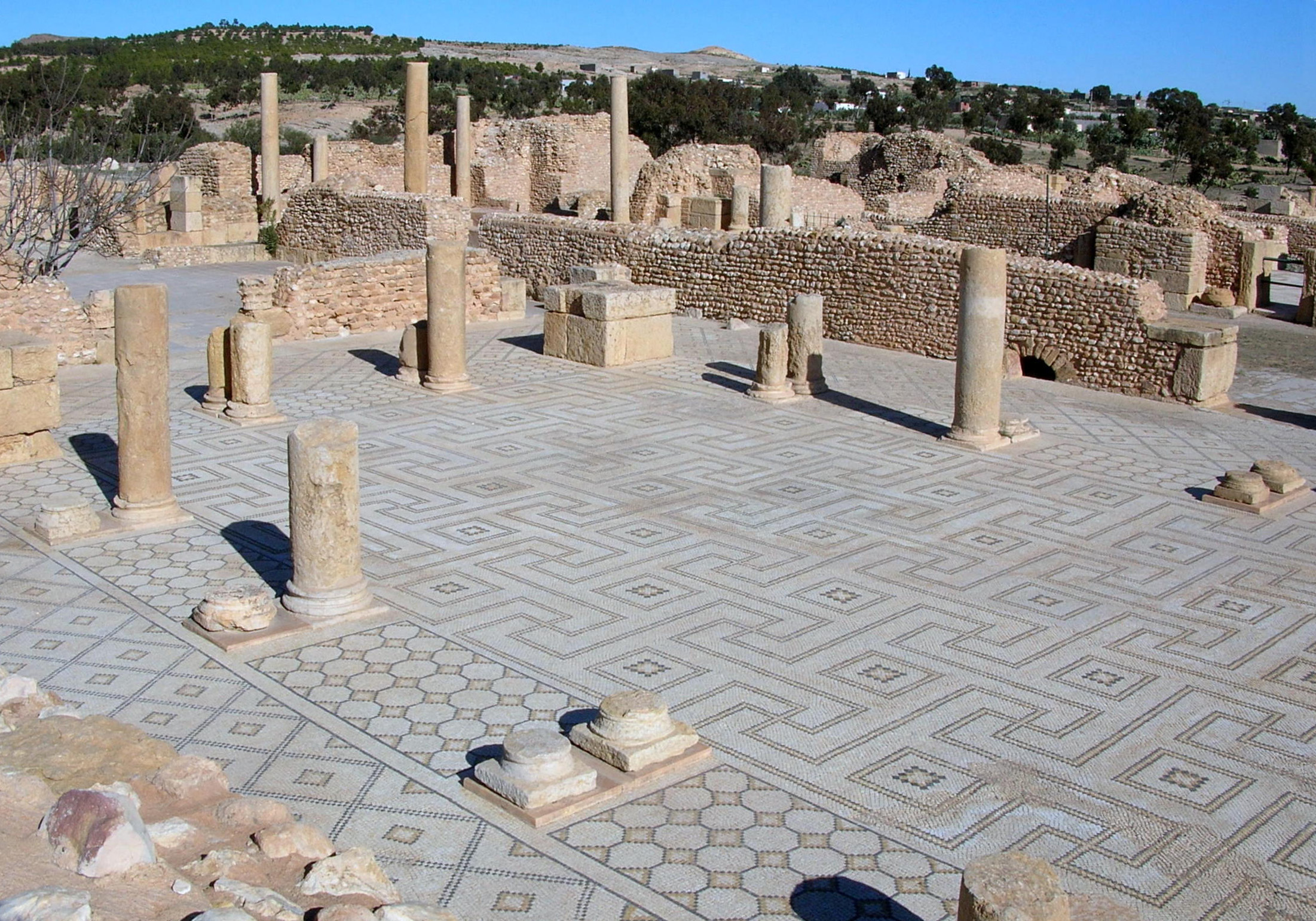 Great Baths of Steitla, Tunisia